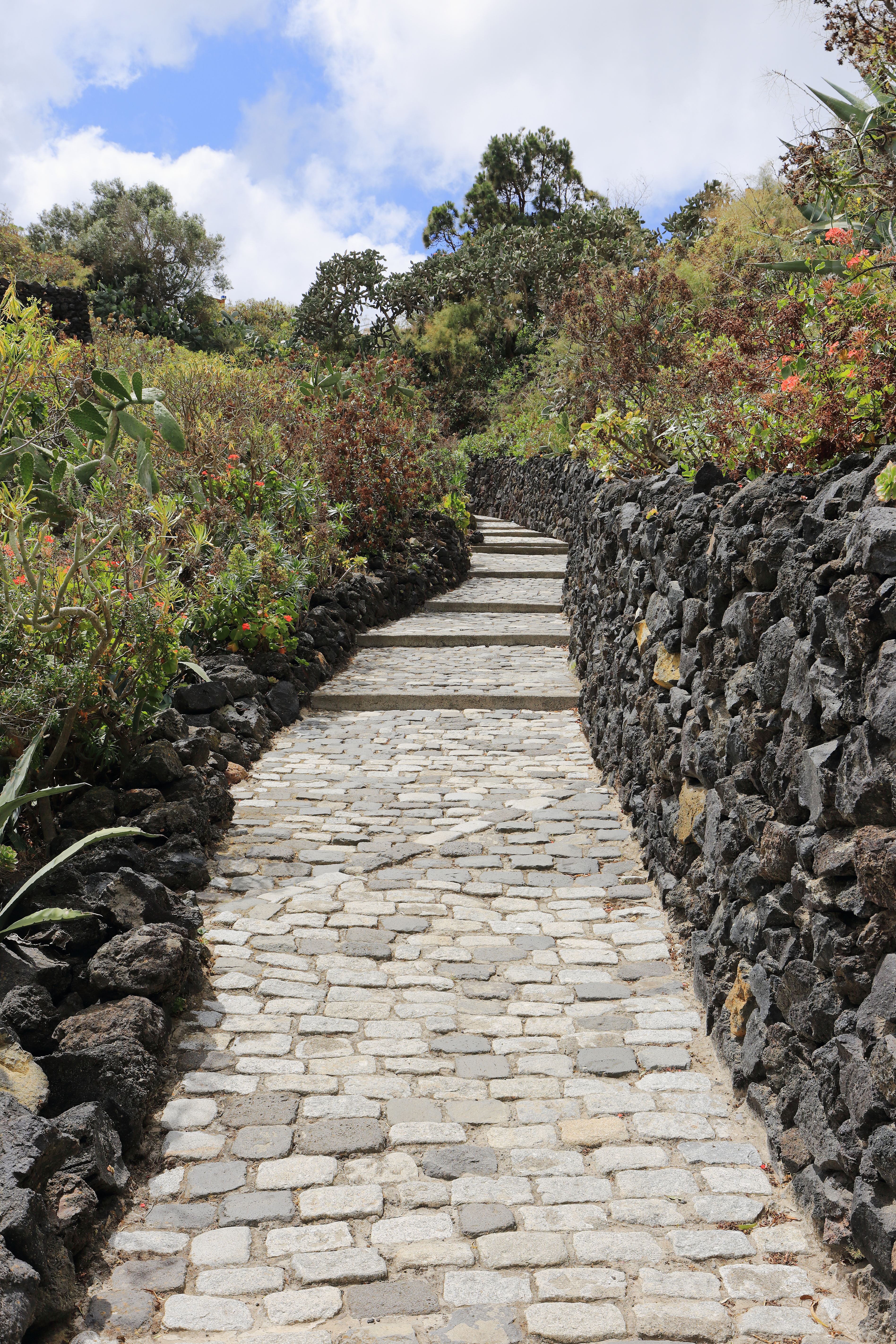 Path leading from Bandama Caldera, Gran Canaria